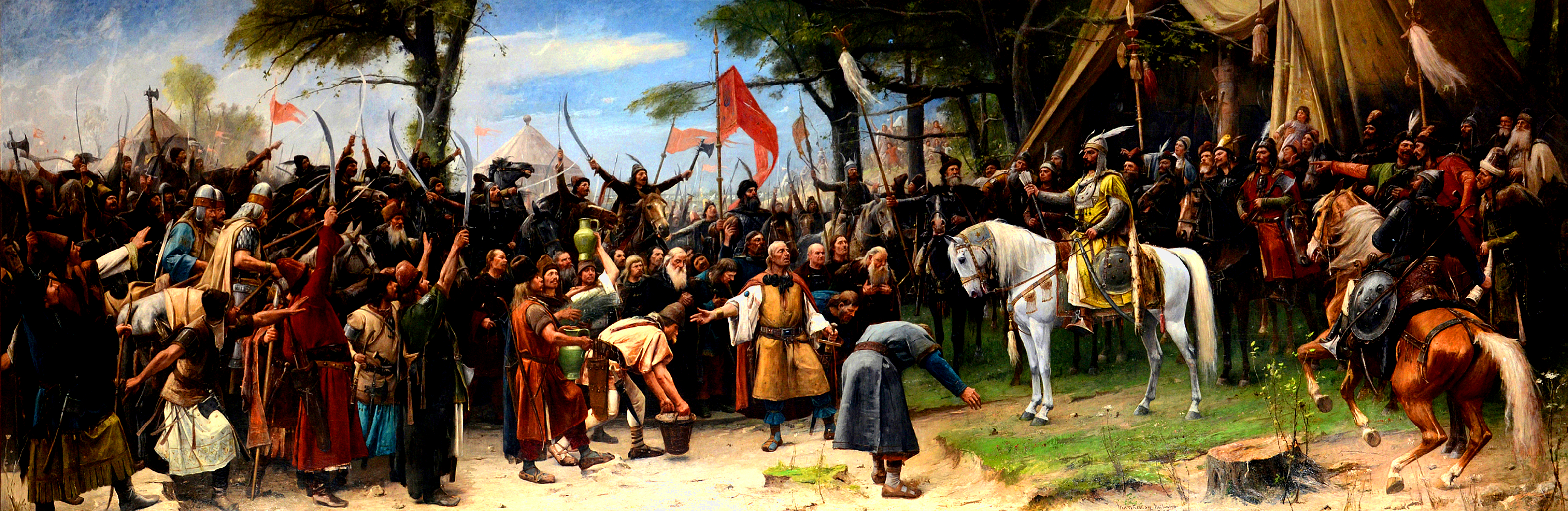 Conquest (Settlement of the Magyars in Hungary)